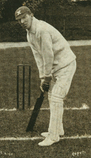 Smith's "Albion" Gold Flakes Cigarette Card of George Gunn, part of the 1912 Cricketers series.